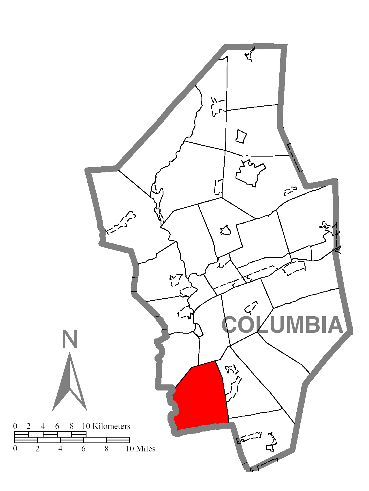 A map of Columbia County showing Cleveland Township, Pennsylvania (alternate) highlighted on the map.